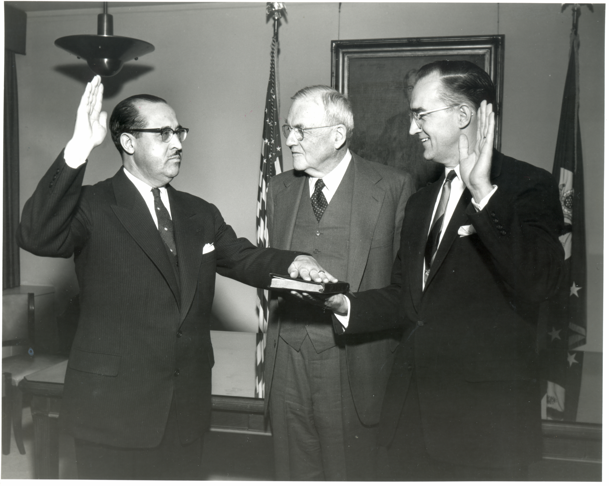 Clifton R. Wharton Sr. being sworn in as Ambassador to Romania, February 1958. In the center is Secretary of State John Foster Dulles. Clifton Reginald Wharton Sr. (May 11, 1899 – April 25, 1990) was an American diplomat, and the first African-American diplomat to become an ambassador by rising through the ranks of the Foreign Service rather than by political appointment. He also became the first black Foreign Service Officer to become chief of a diplomatic mission. Photo credit: State Dept.